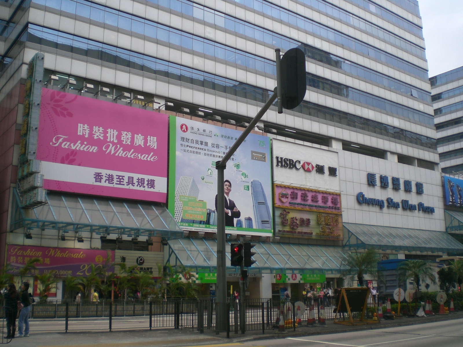 長沙灣道長沙灣廣場